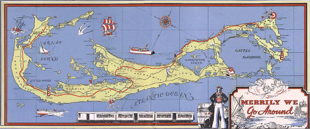 Route map of the defunct Bermuda Railway, published by Her Majesty's Bermuda government, an overseas territory of the United Kingdom, prior to the railway's abandonment in 1948. Portions of the old right-of-way are now used as a hiking trail, the Bermuda Railway Trail.